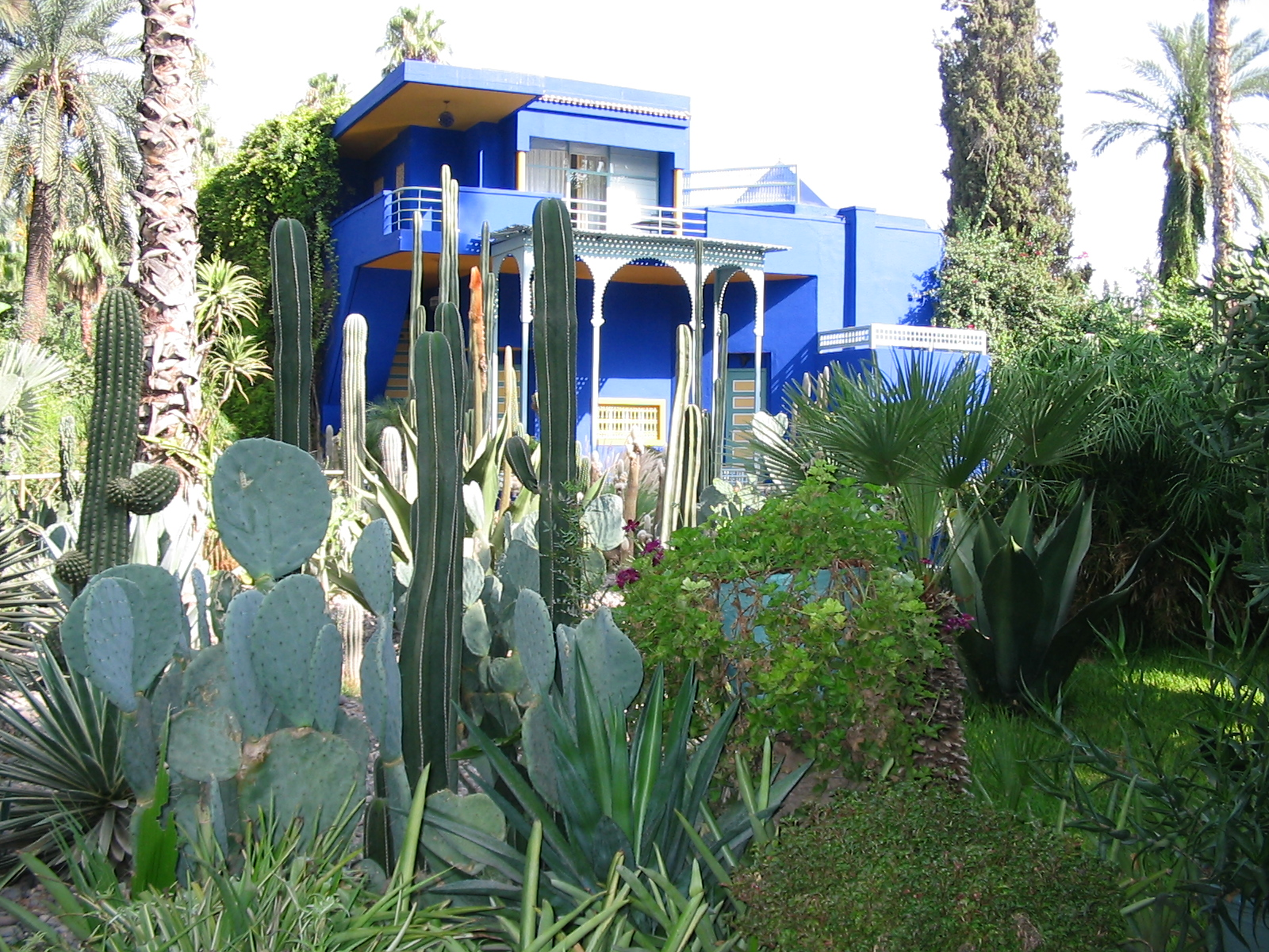 Majorelle Garden, Marrakech, Morocco Picture taken by Rogier van Staveren